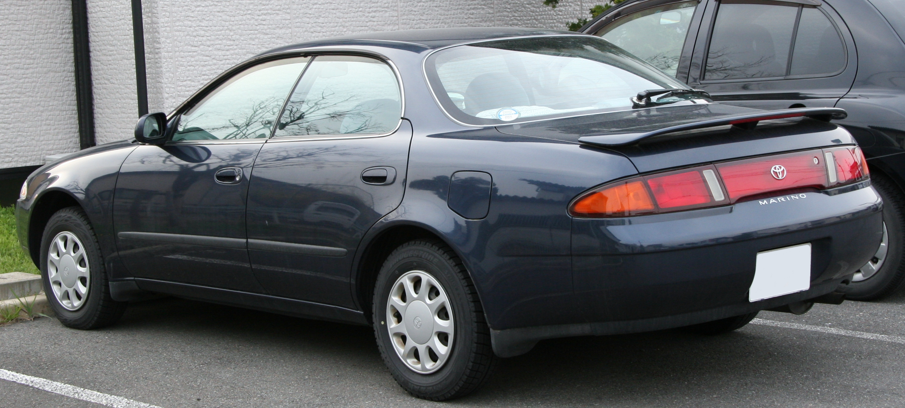 Toyota Sprinter Marino